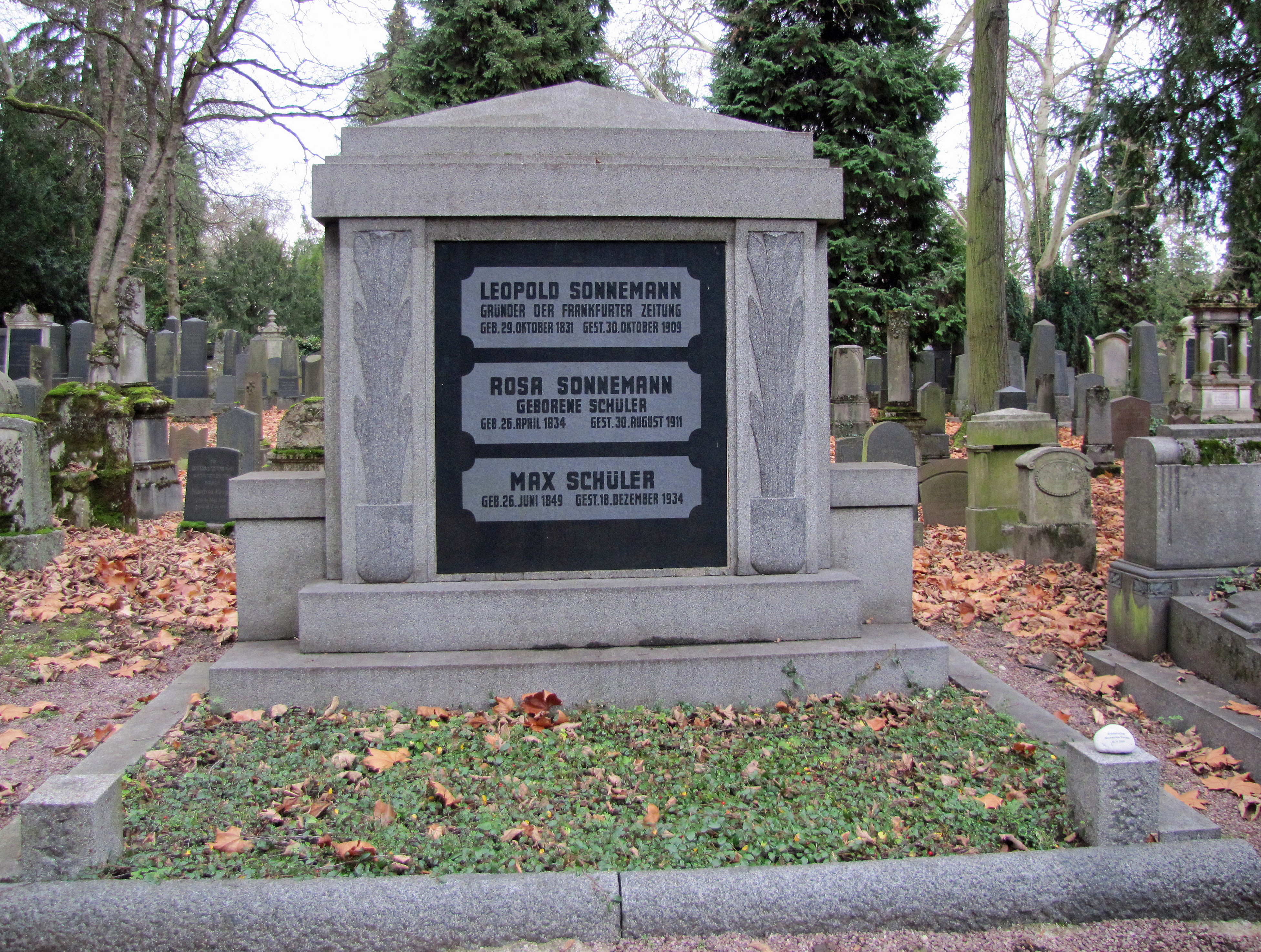 (Old) Jewish cemetery at Rat-Beil-Strasse in Frankfurt am Main, Germany. Tombstone of Leopold Sonnemann.